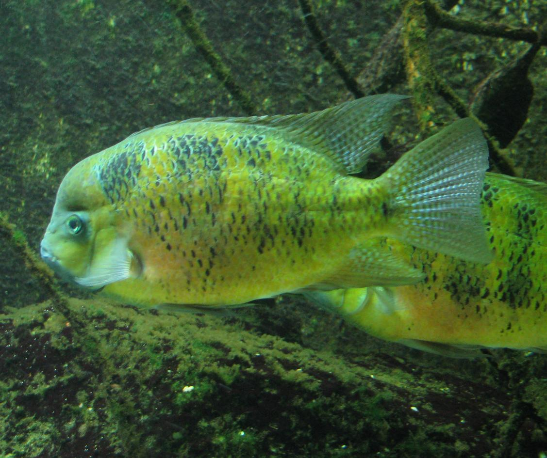 Herichthys bocourti